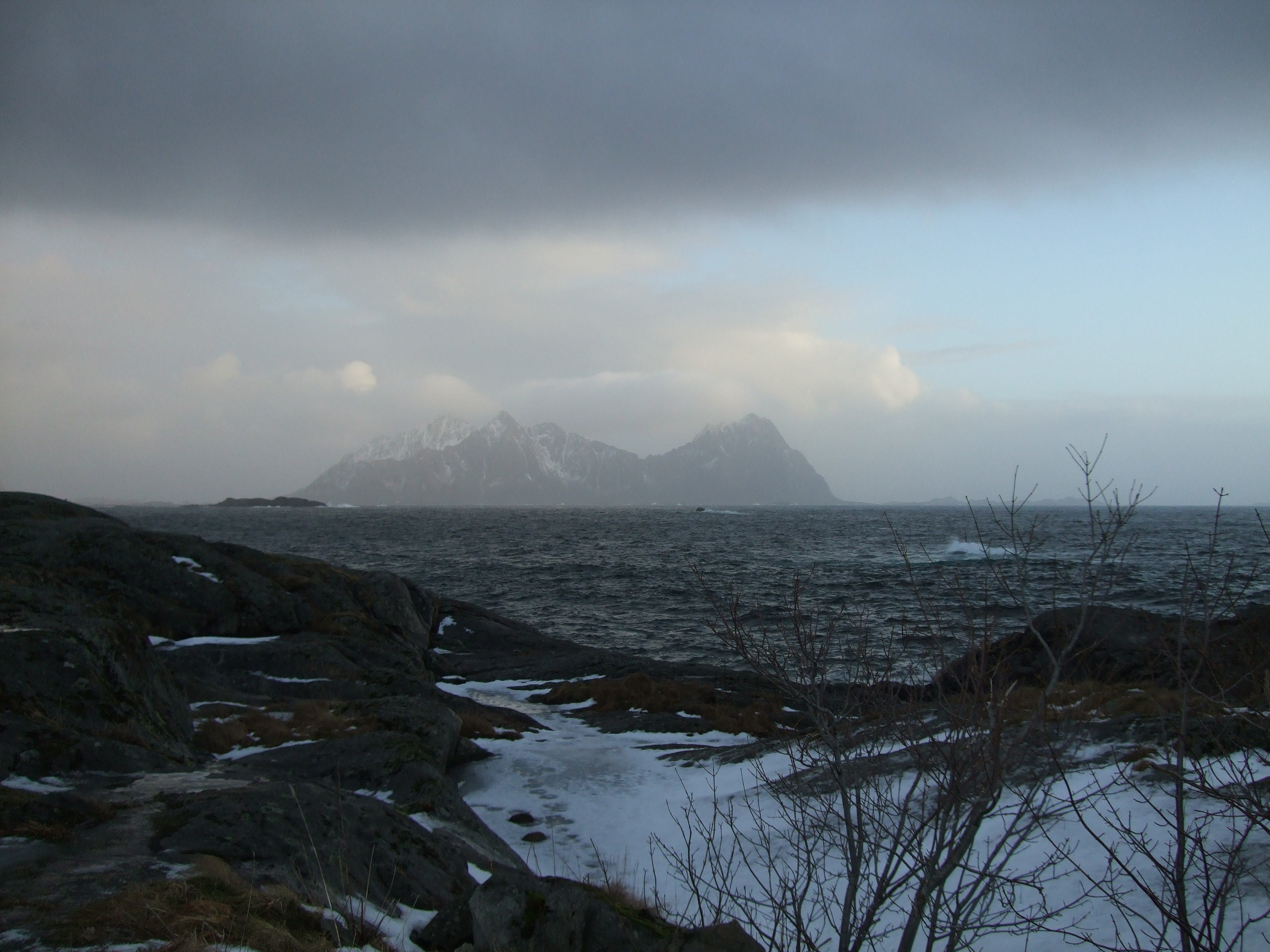 The island Lille Molla seen from Svolvær in Lofoten, Norway